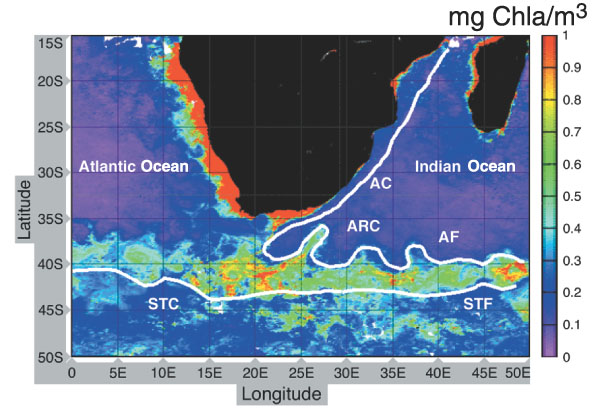 Schematic of the surface circulation in the Agulhas Current system. AC: Agulhas Current; ARC: Agulhas Return Current; AF: Agulhas Front, STC: Subtropical Convergence; STF: Subtropical Front.